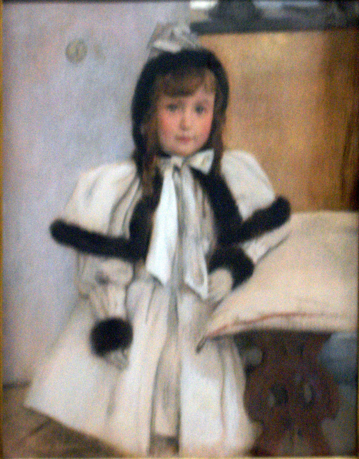 "Portrait of miss Germaine Wiener" (1893), painting by Fernand Khnopff (1858-1921), Royal Museum of Fine Arts, Brussels, Belgium